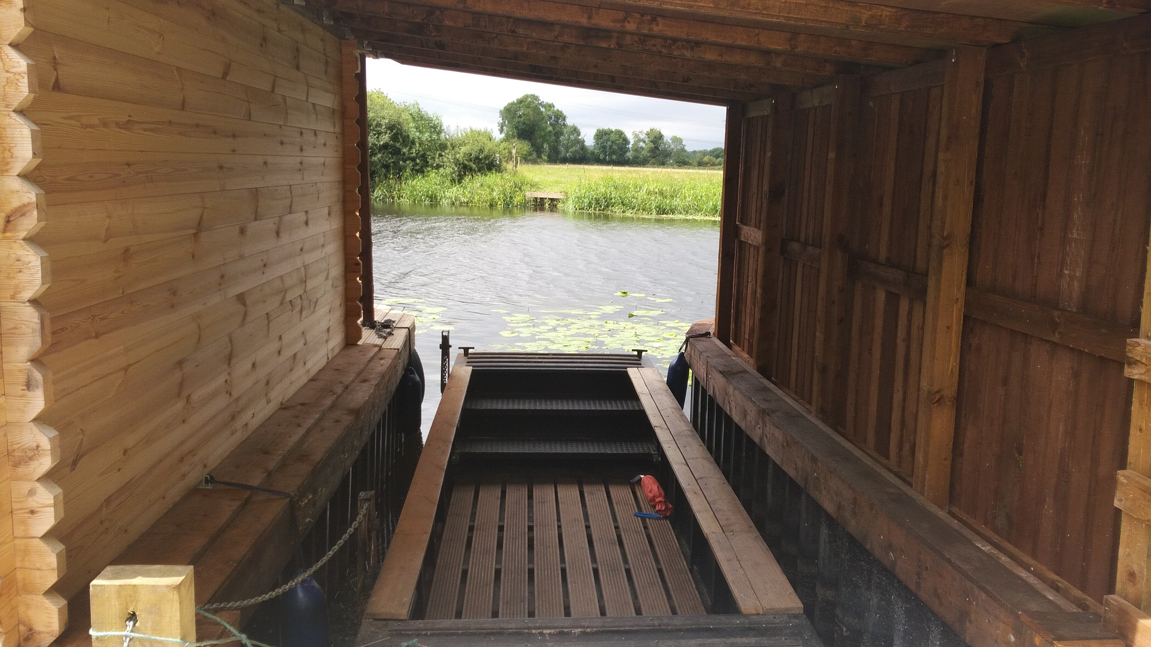 The chain ferry docked (within the Ferry Chalet) on the bank of the River Soar.